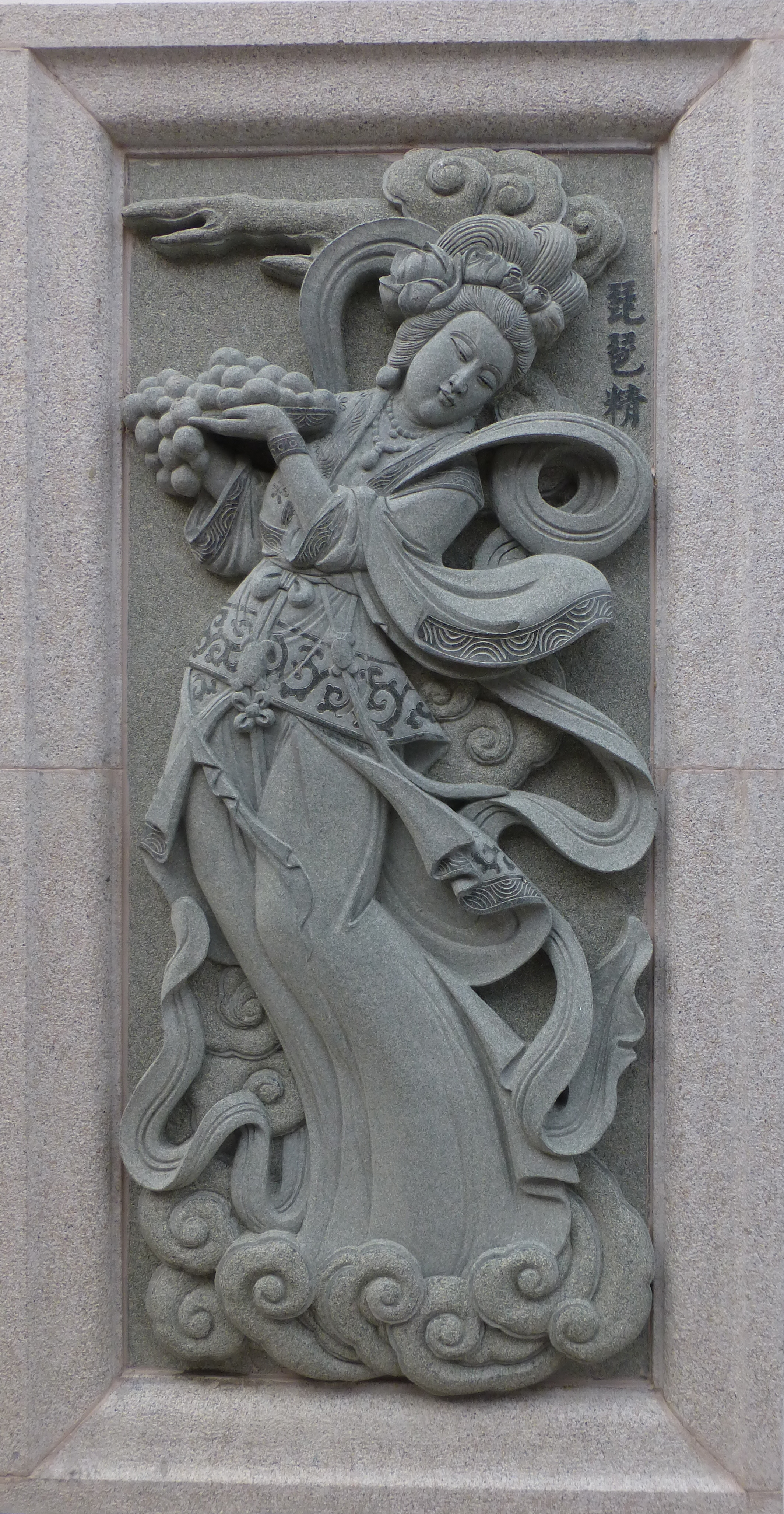 028 Pipa Jing, Investiture of the Gods at Ping Sien Si, Pasir Panjang, Perak, Malaysia Photograph from the Ping Sien Si Temple in Perak, Malaysia taken by Anandajoti.